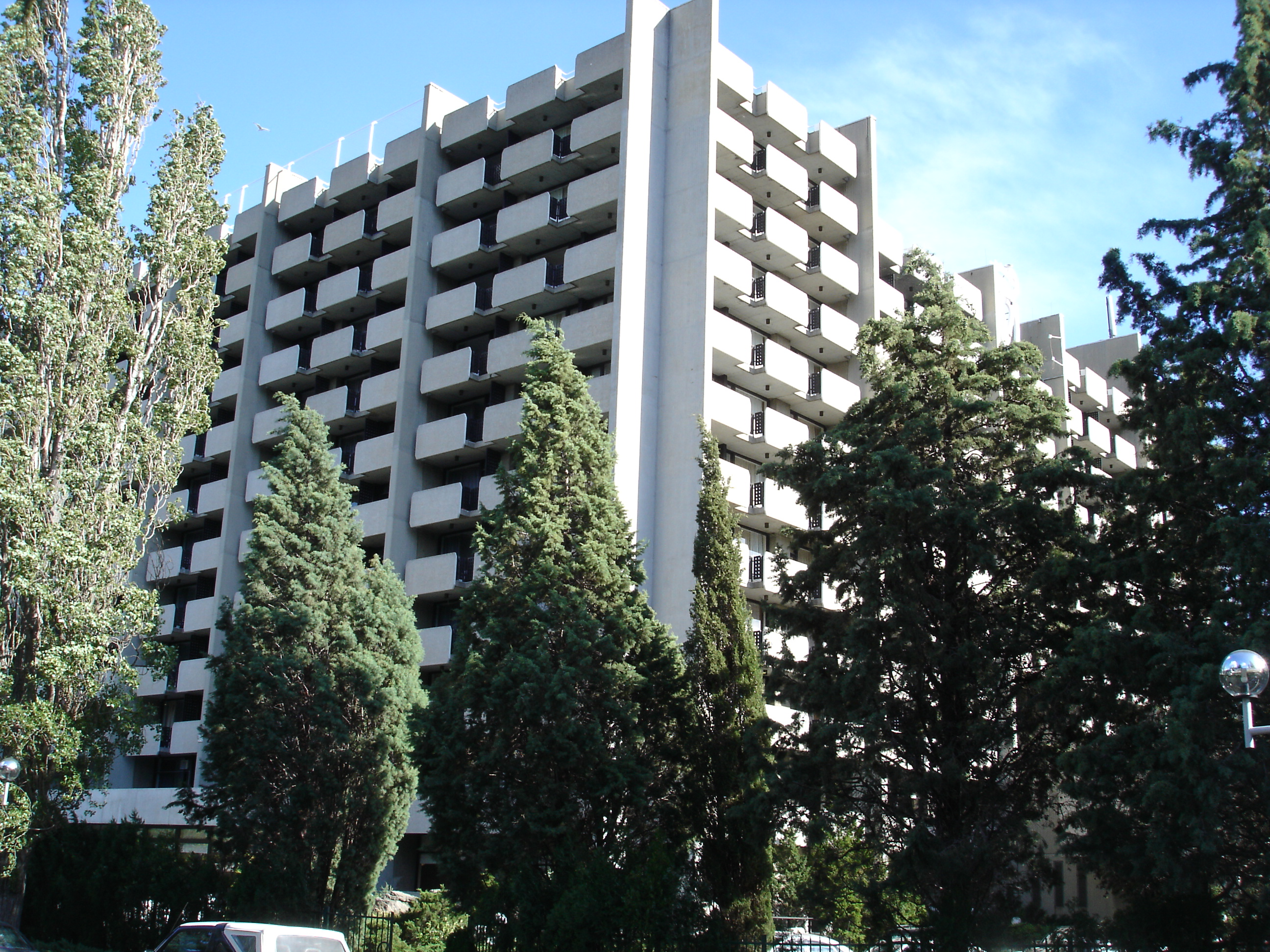 Grand Hotel Varna, town Varna, Bulgaria